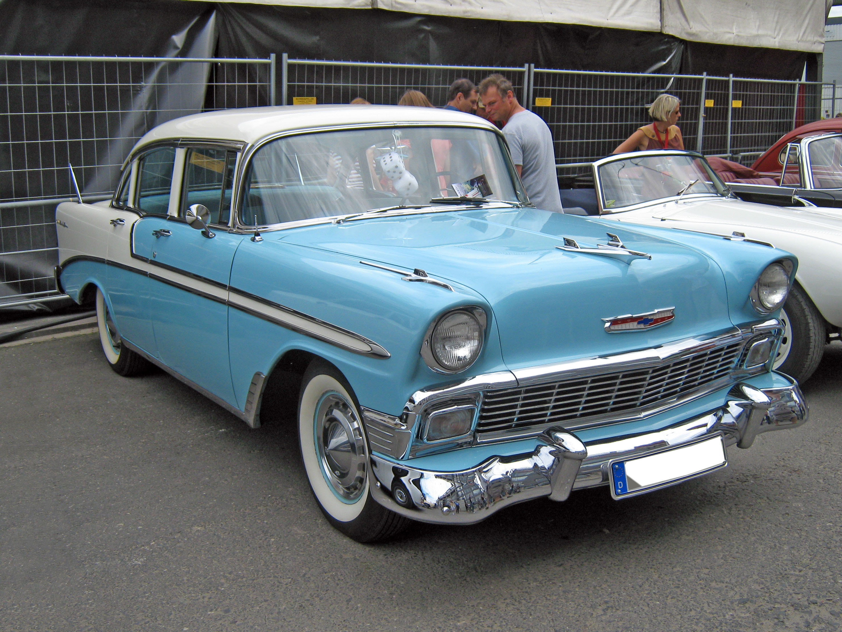 1956 Chevrolet Bel Air 4 Door Sedan front view.jpg